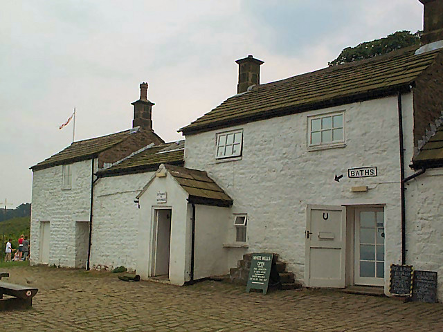 White Wells, Ilkley. Ilkley's first spa, high on the edge of the moor to the south of the town.